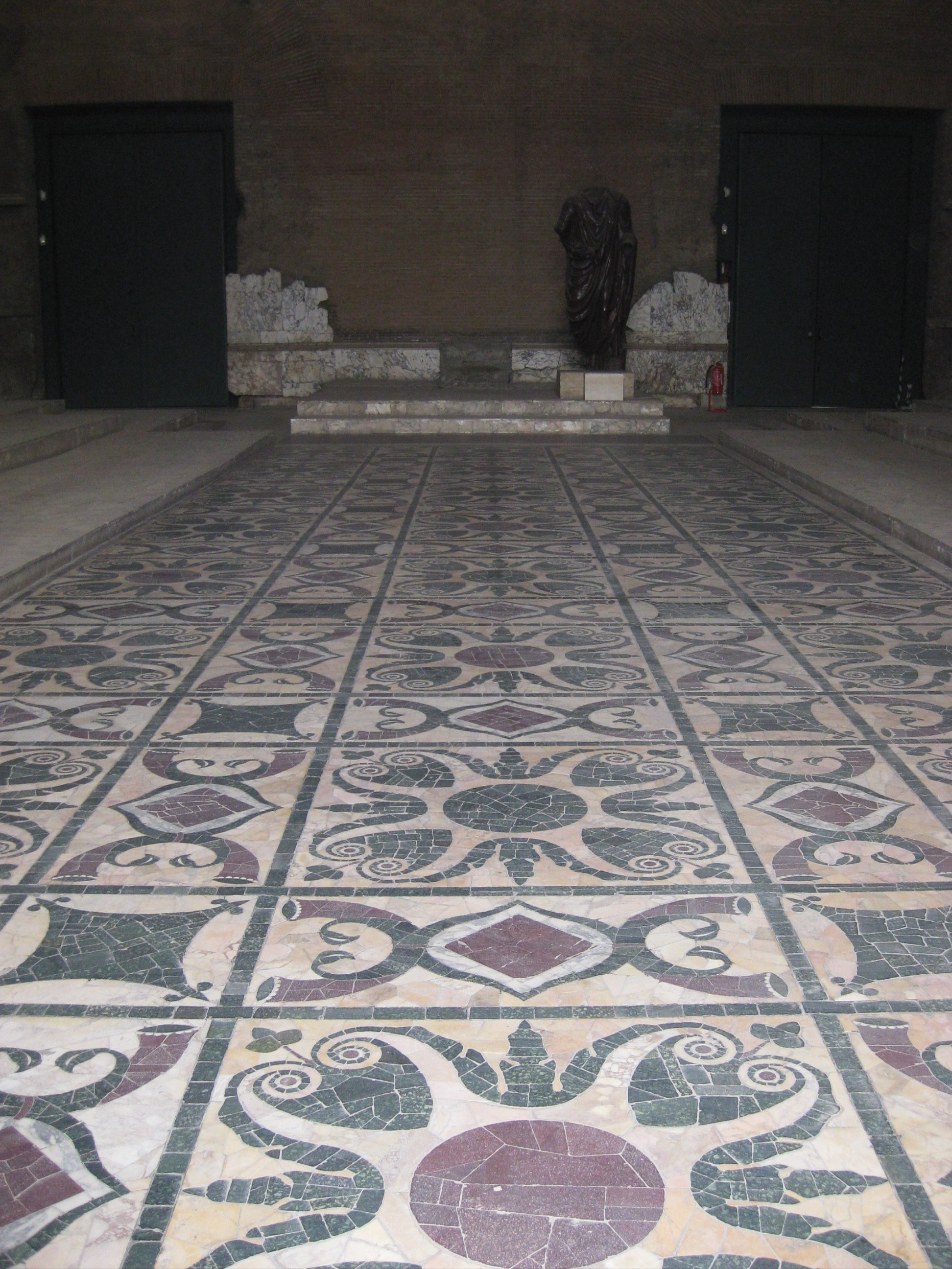 Curia Iulia pavement, Roman Forum.